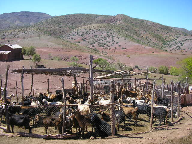 Goats inside of a pen in Norte Chico, Chile